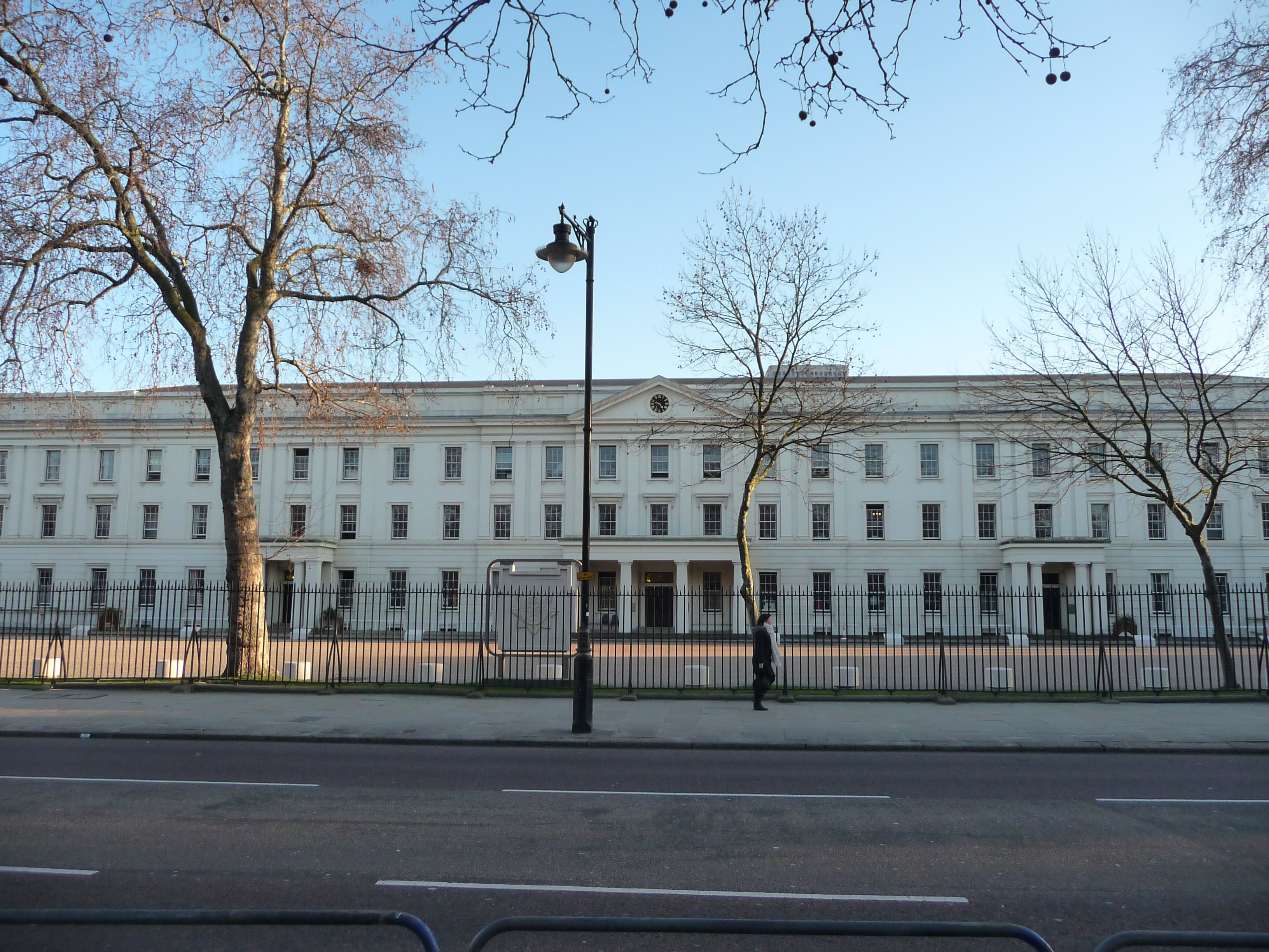 London : Westminster - Wellington Barracks The Foot Guards Battalions on public duties in London are located in barracks conveniently close to Buckingham Palace for them to be able to reach the Palace very quickly in an emergency.